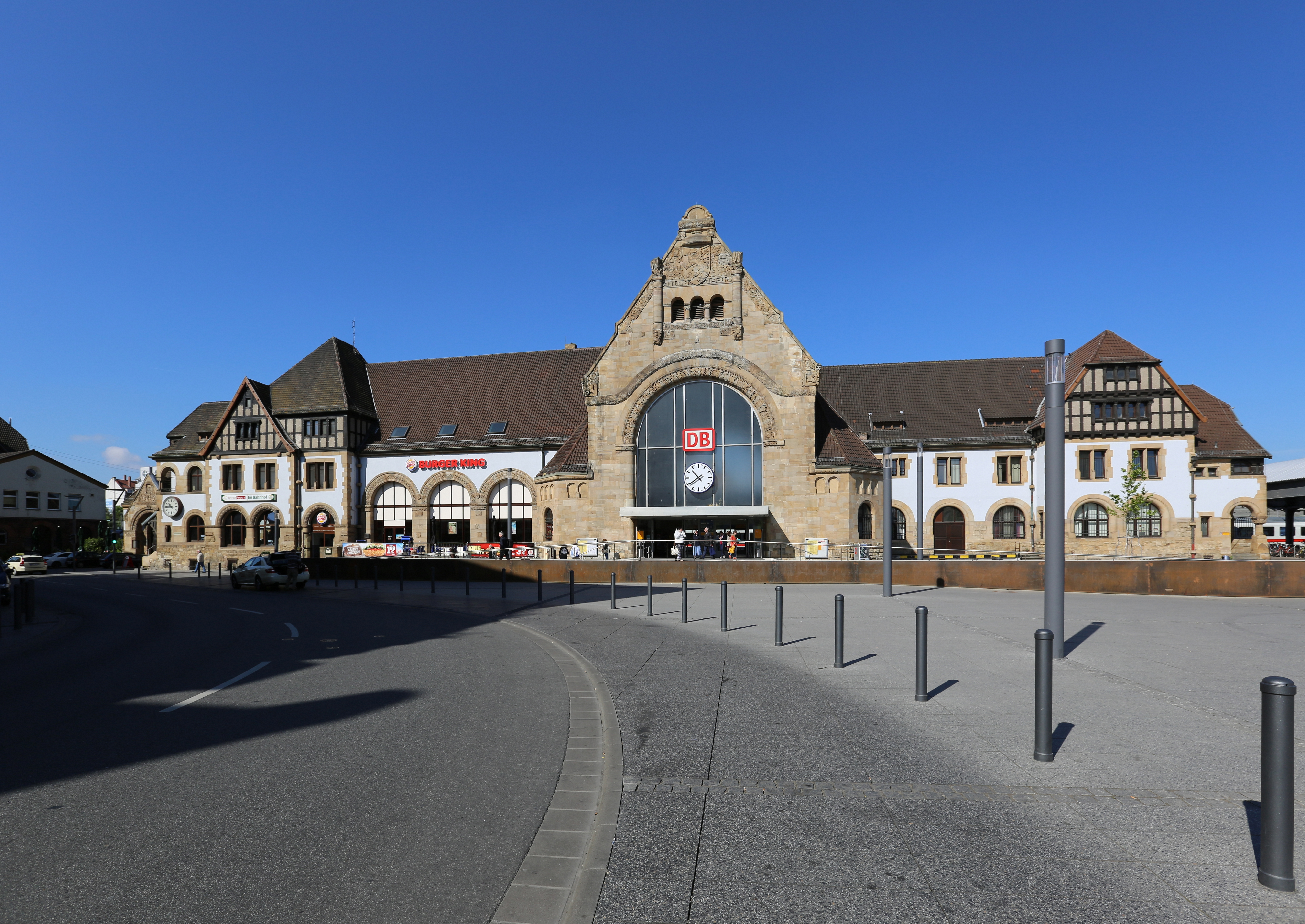 Central railway station Worms, Rhineland-Palatinate, Germany